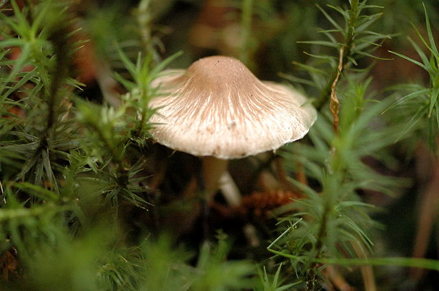 Inocybe asterospora from Commanster, Belgium. If you think this is a different taxon, please contact James Lindsey.